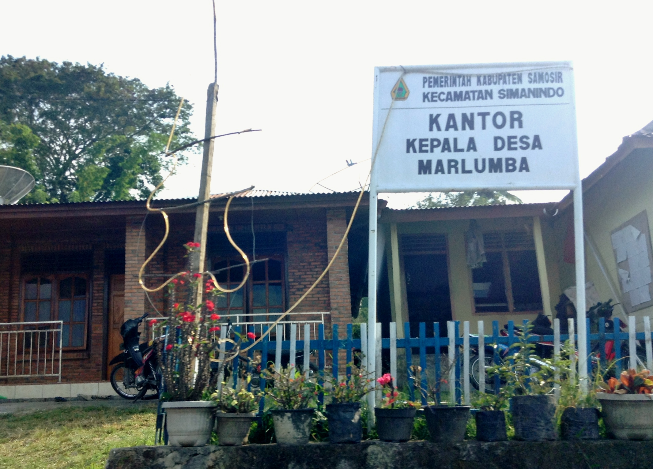 Office village of Marlumba, Simanindo, Samosir, North Sumatra, Indonesia.